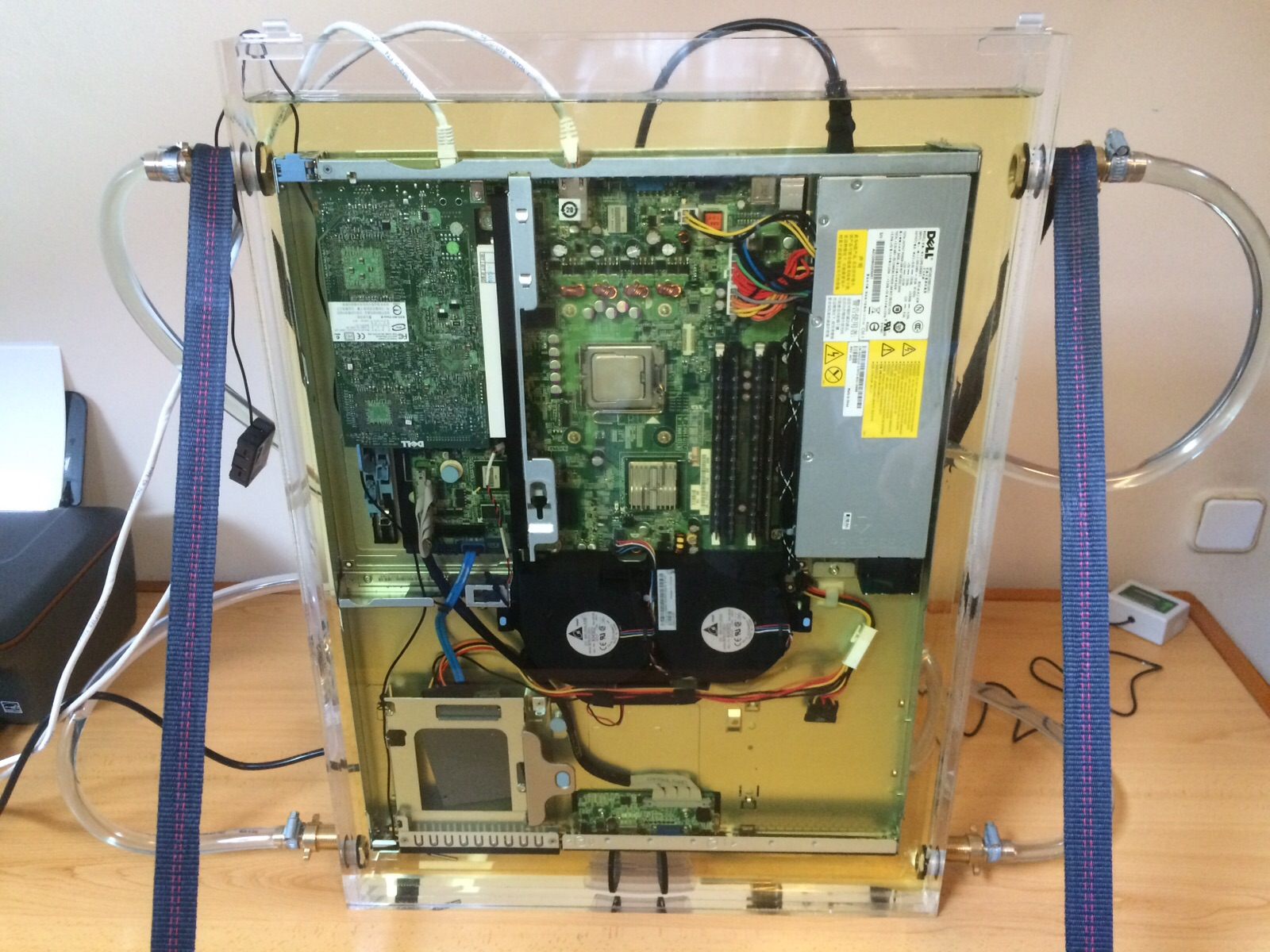 Example of Server Immersion Cooling with a single DELL R200 server